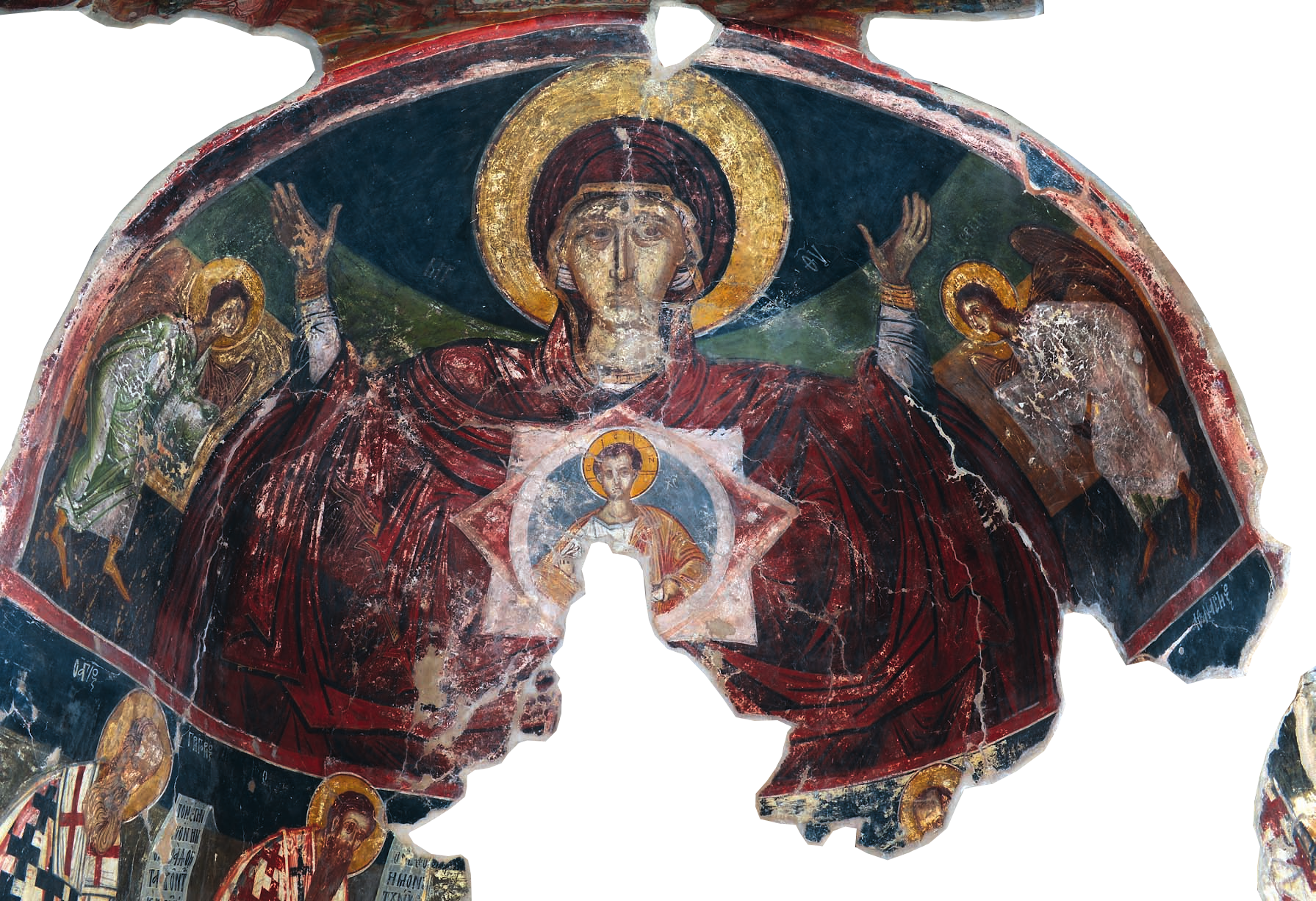 Church of the Presentation of Virgin Mary Tsiatsiapa in Kastoria: View of east wall and apse